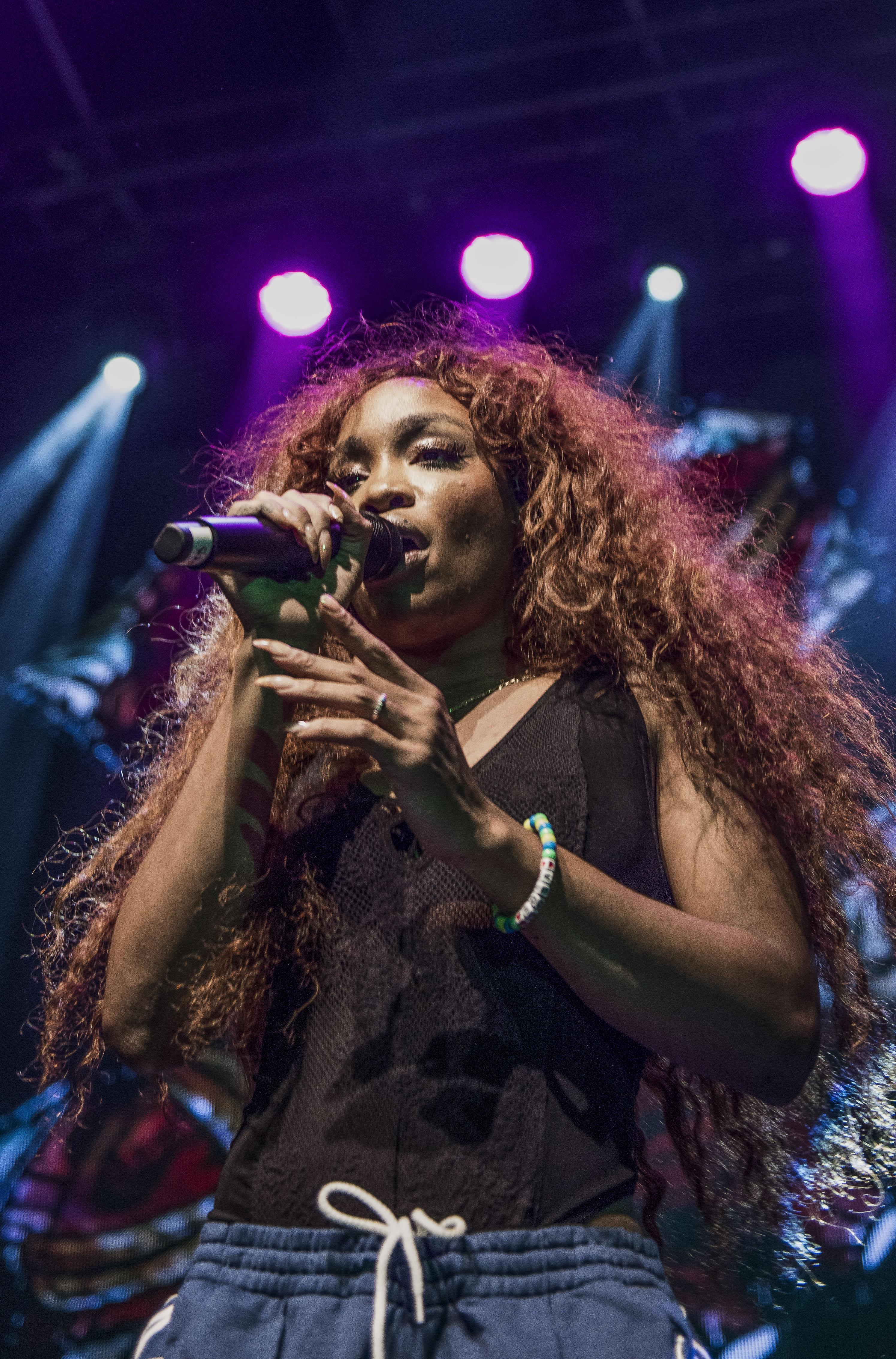 American R&B singer SZA performing at REBEL on August 23, 2017 in Toronto, Canada on Ctrl the Tour.